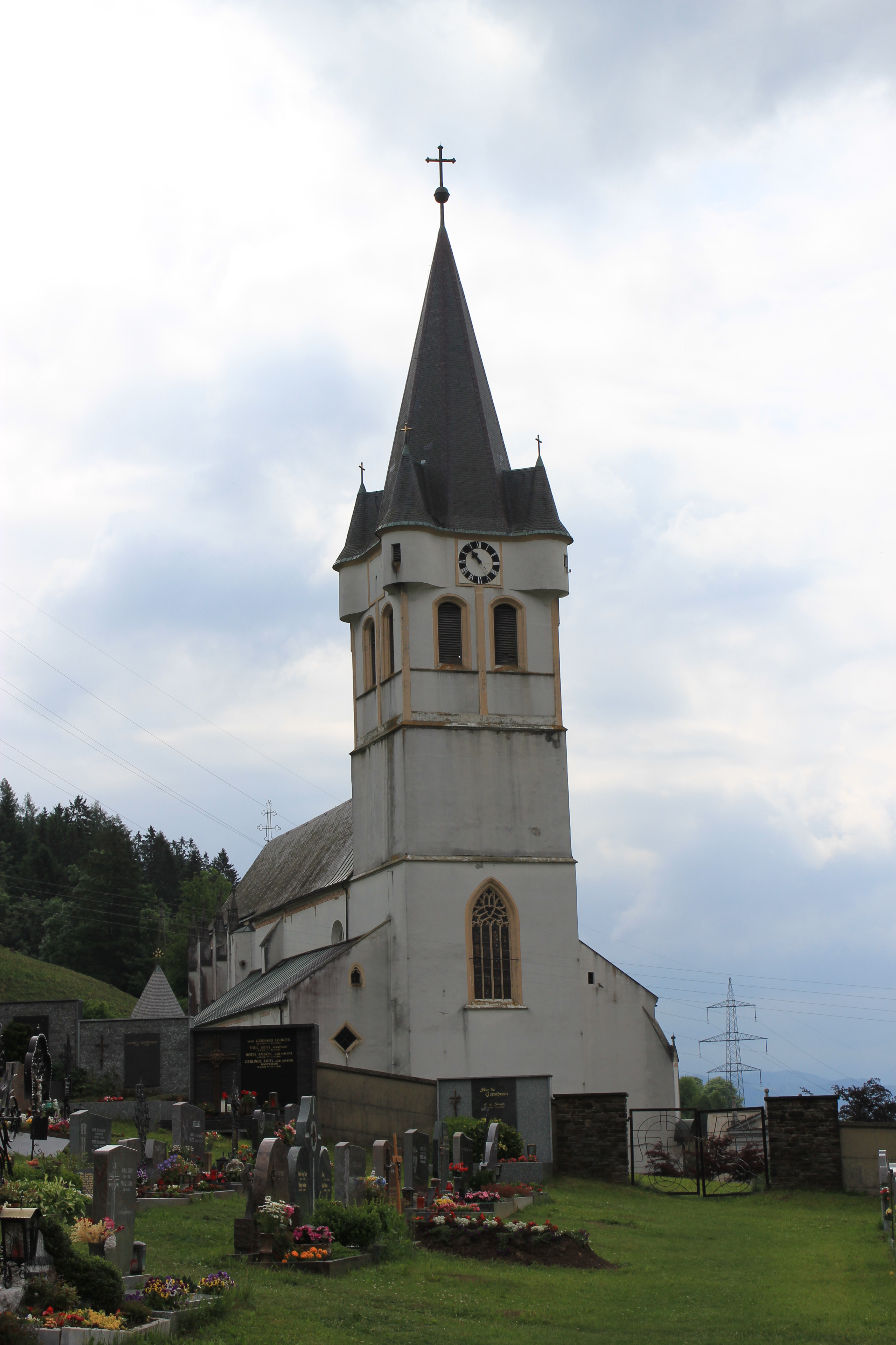 Parish church in Bad Sankt Leonhard